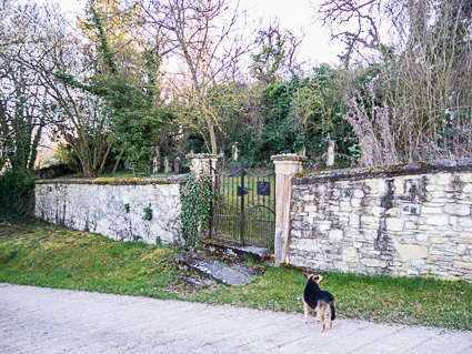 Judenfriedhof Albisheim 1